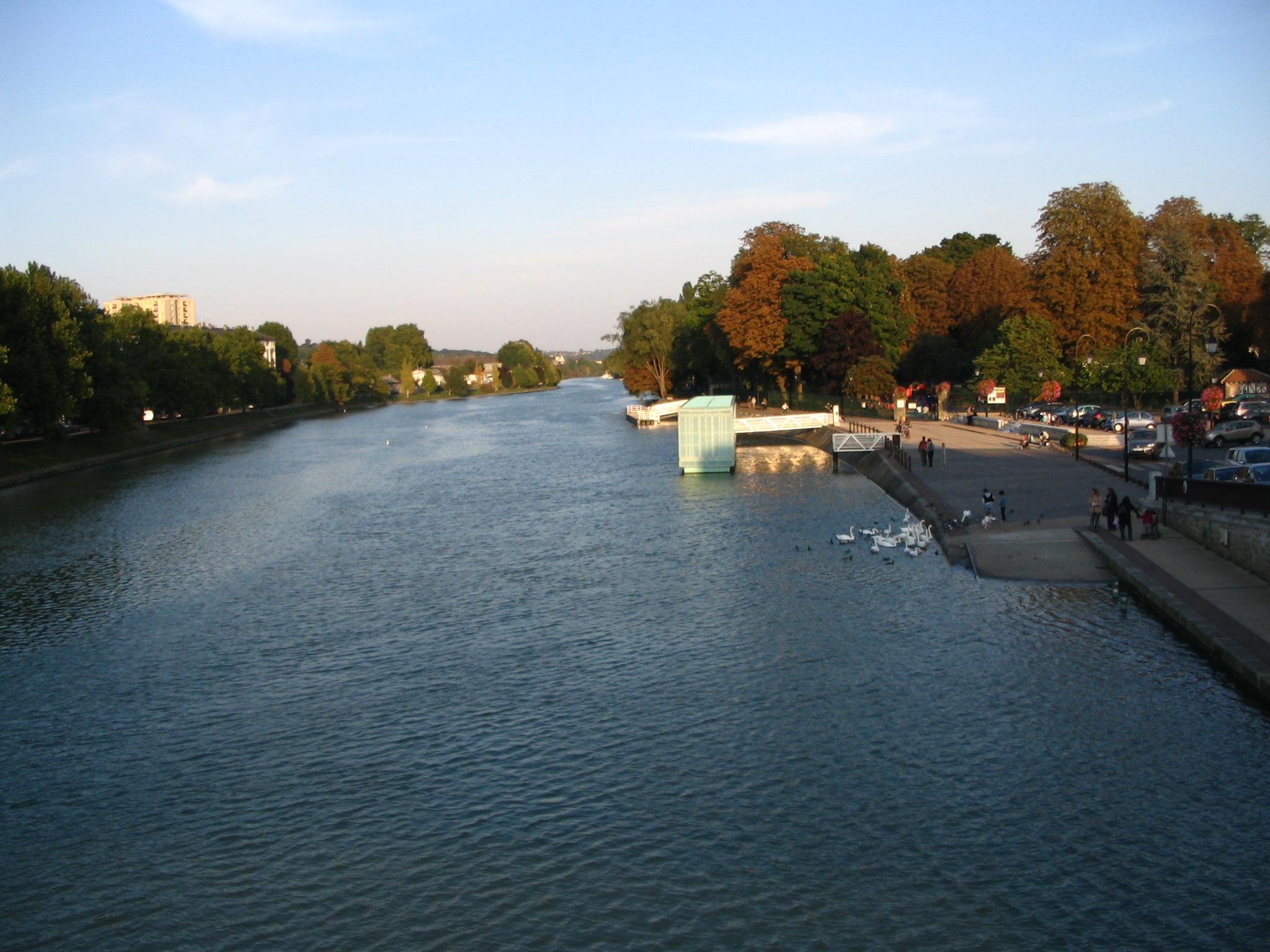 River Marne in Lagny-sur-Marne, Seine-et-Marne, France.